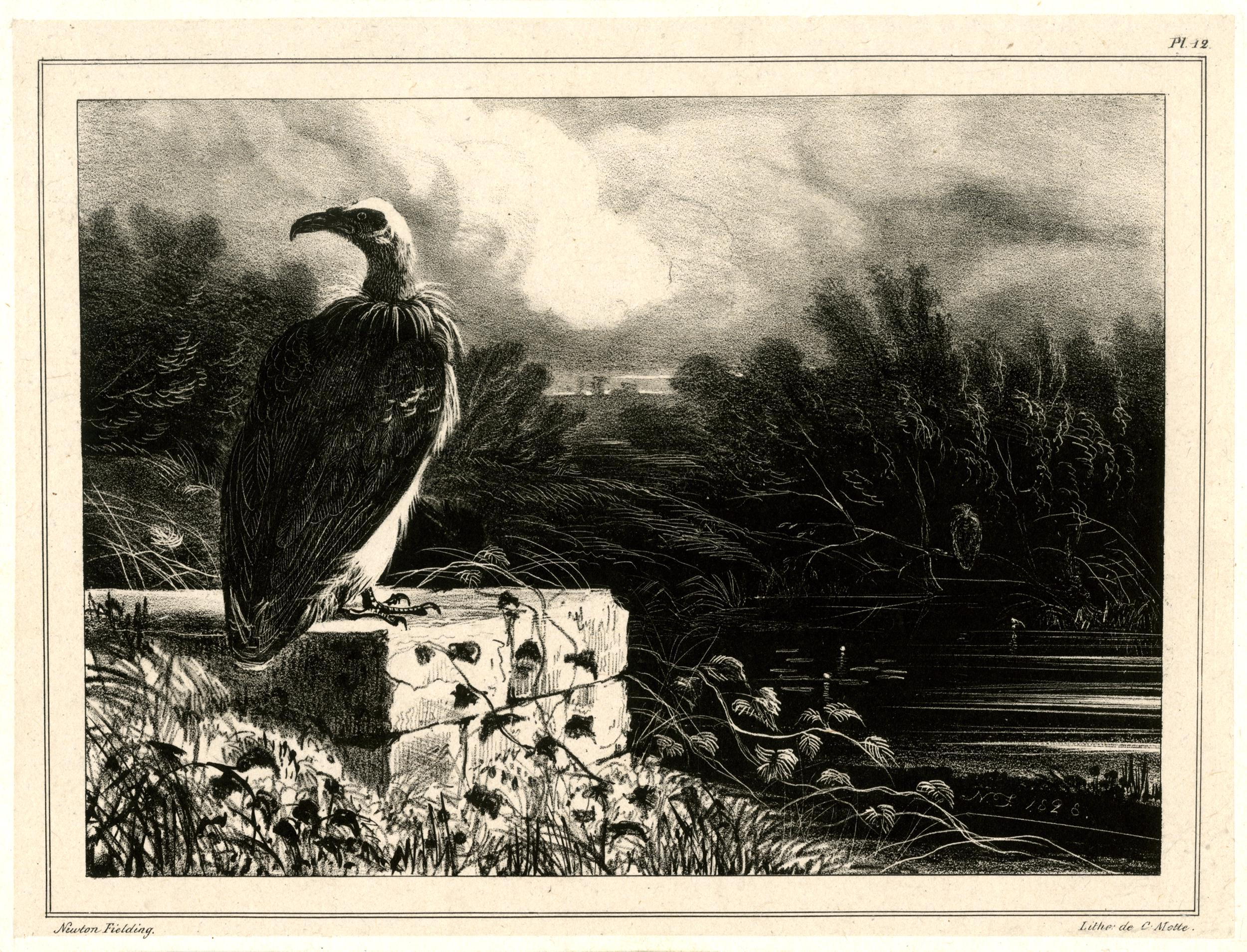 Plate 12. A vulture or fish eagle standing on a stone platform on a riverbank at left, with its back turned to the viewer and head turned in profile to left; long grass and vines in foreground; trees on the opposite bank; border of double line around image. 1828 Lithograph on chine collé